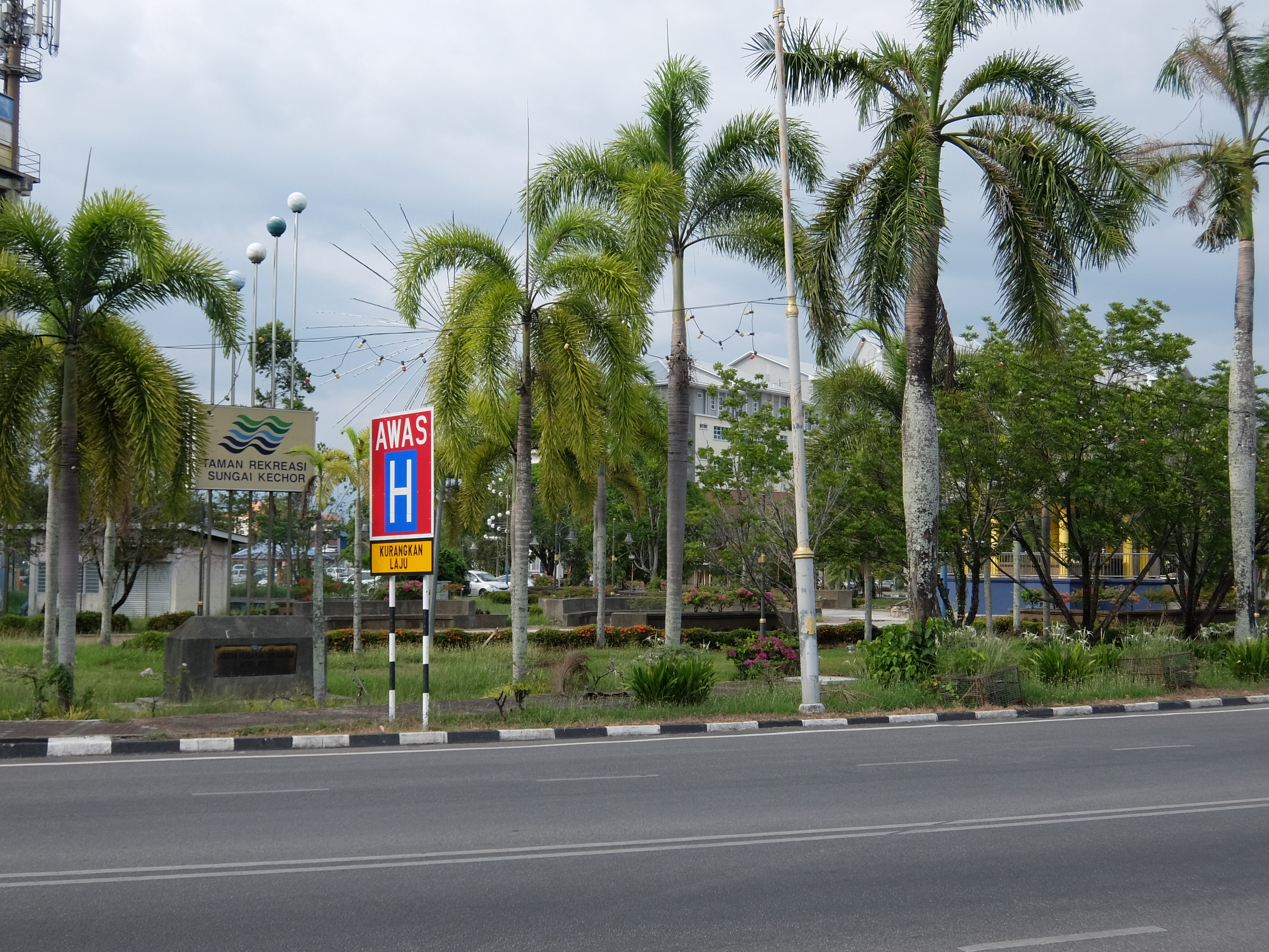 Kechor River Recreational Park, Kangar, Perlis, Malaysia